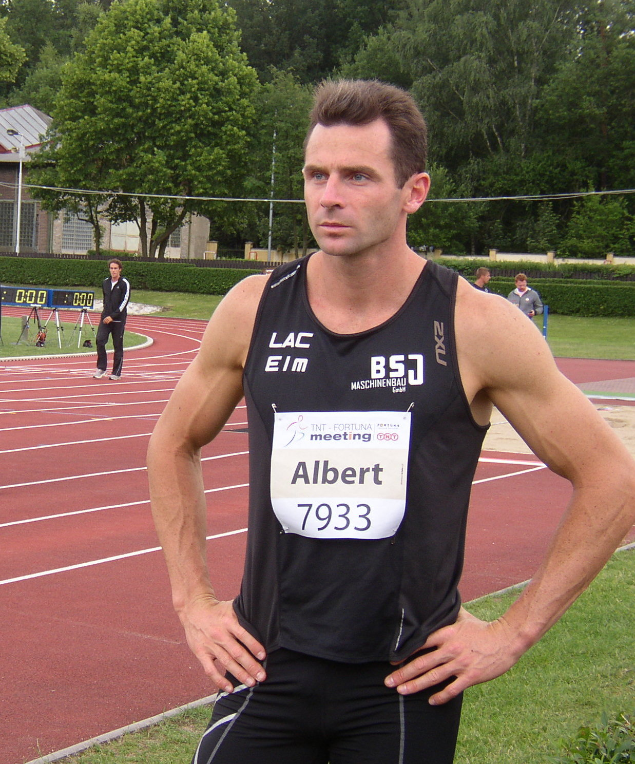 Athlete Lars Albert of Germany after his second attempt in long jump during men's decathlon at 5th edition of the TNT - Fortuna Meeting (IAAF World Combined Events Challenge Meeting, Sletiště Stadium, Kladno, Czech Republic, 15 June 2011, 13:20).